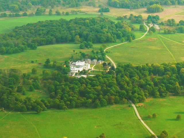 White Lodge, Richmond Park, Richmond White Lodge dates from the early 18th century having been built as a hunting lodge for King George II. It has had various Royal connections, perhaps one of the more interesting being that it was the birthplace of the uncrowned King Edward VIII in 1894. It has been a ballet school since 1955, becoming the Royal Ballet School in 1956. Information from wikipedia White_Lodge,_Richmond_Park